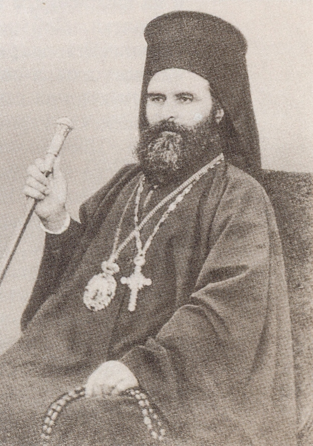 Bishop Еustatius of Pelagonia